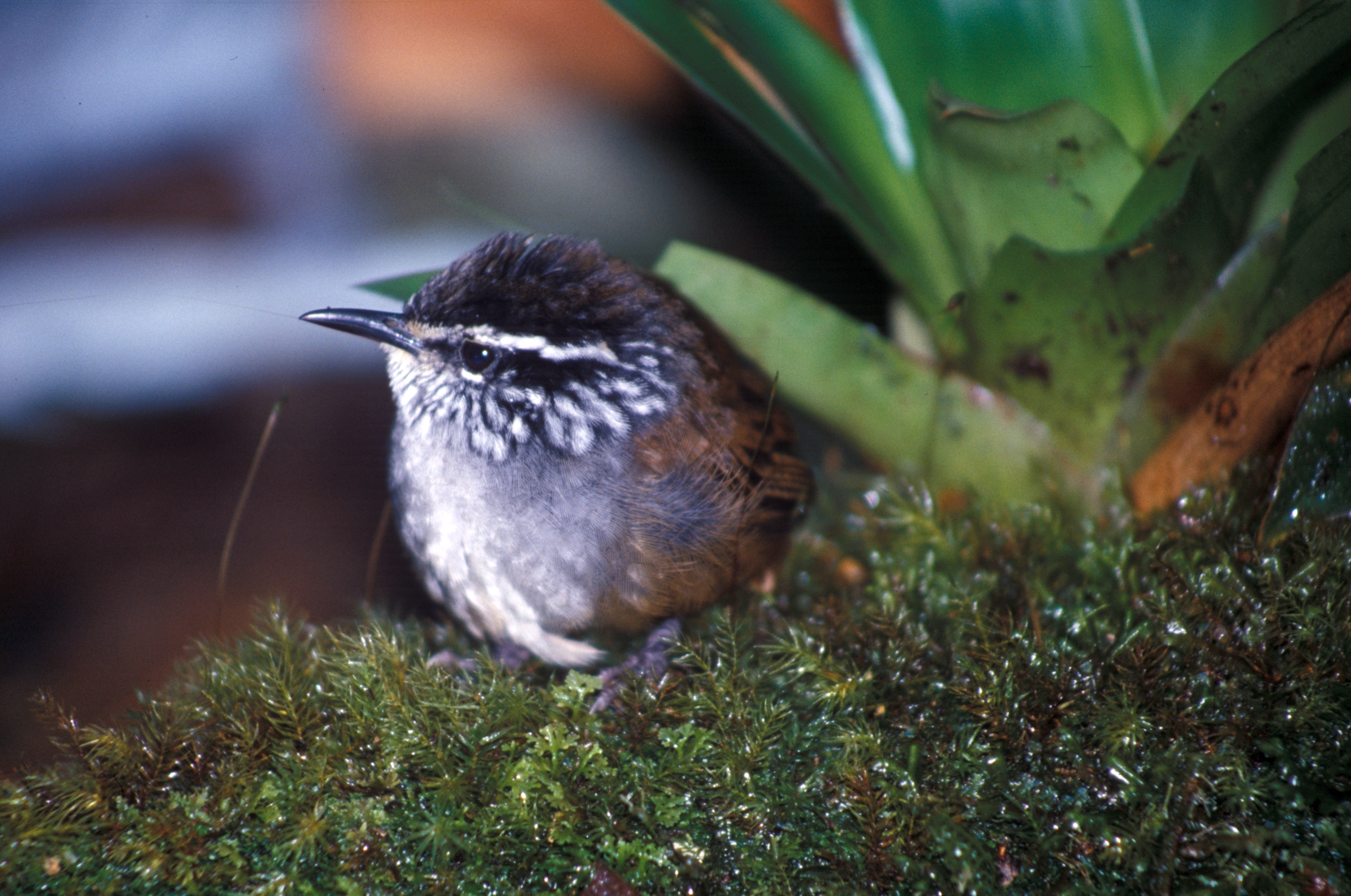 Grey-breasted Wood-Wren (Henicorhina leucophrys) in Ecuador